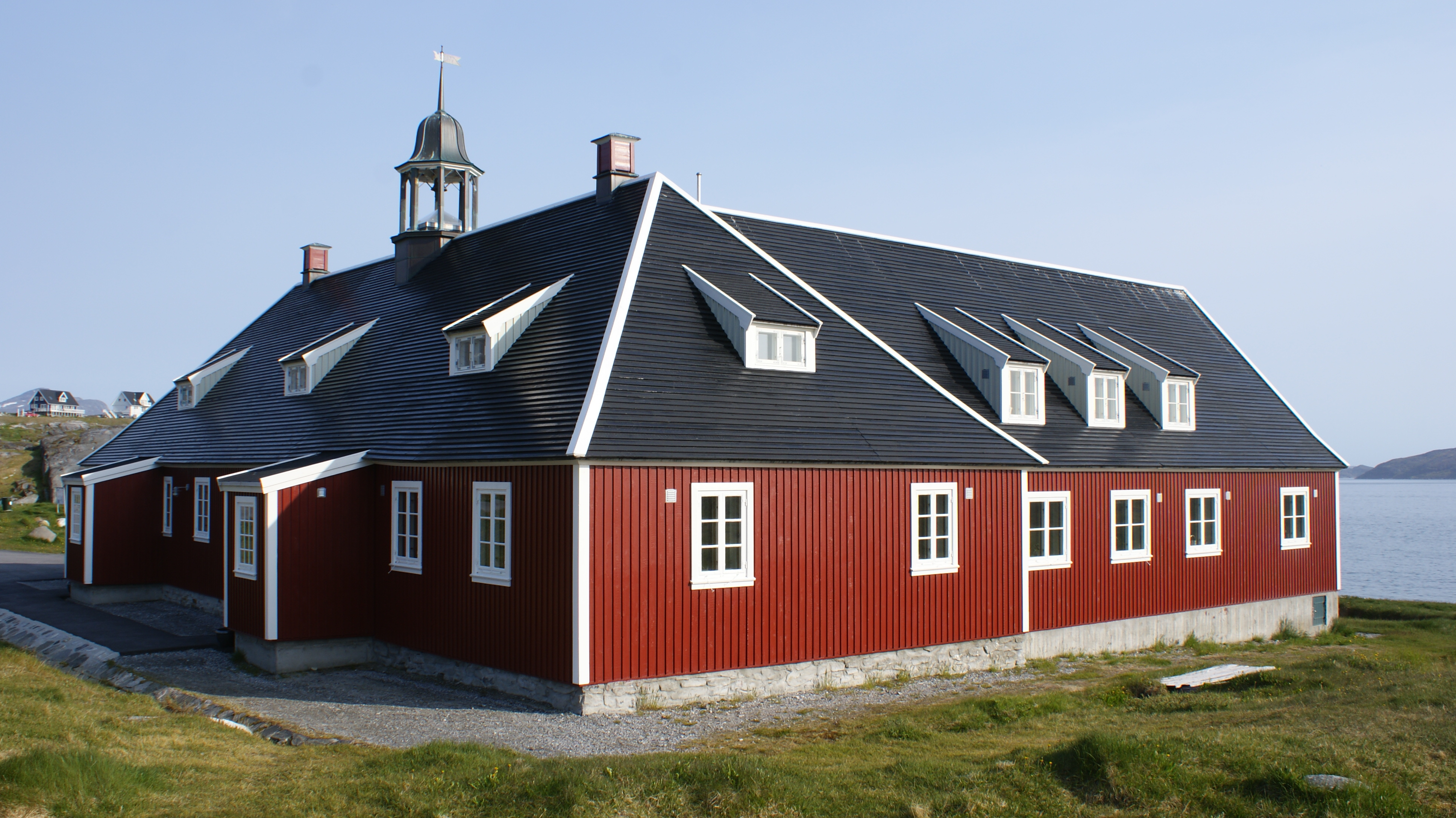 Herrnhut Huset, the historical building of the Moravian Brethren mission to Greenland, located on the shore of Nuup Kangerlua in Nuuk, the capital of Greenland.